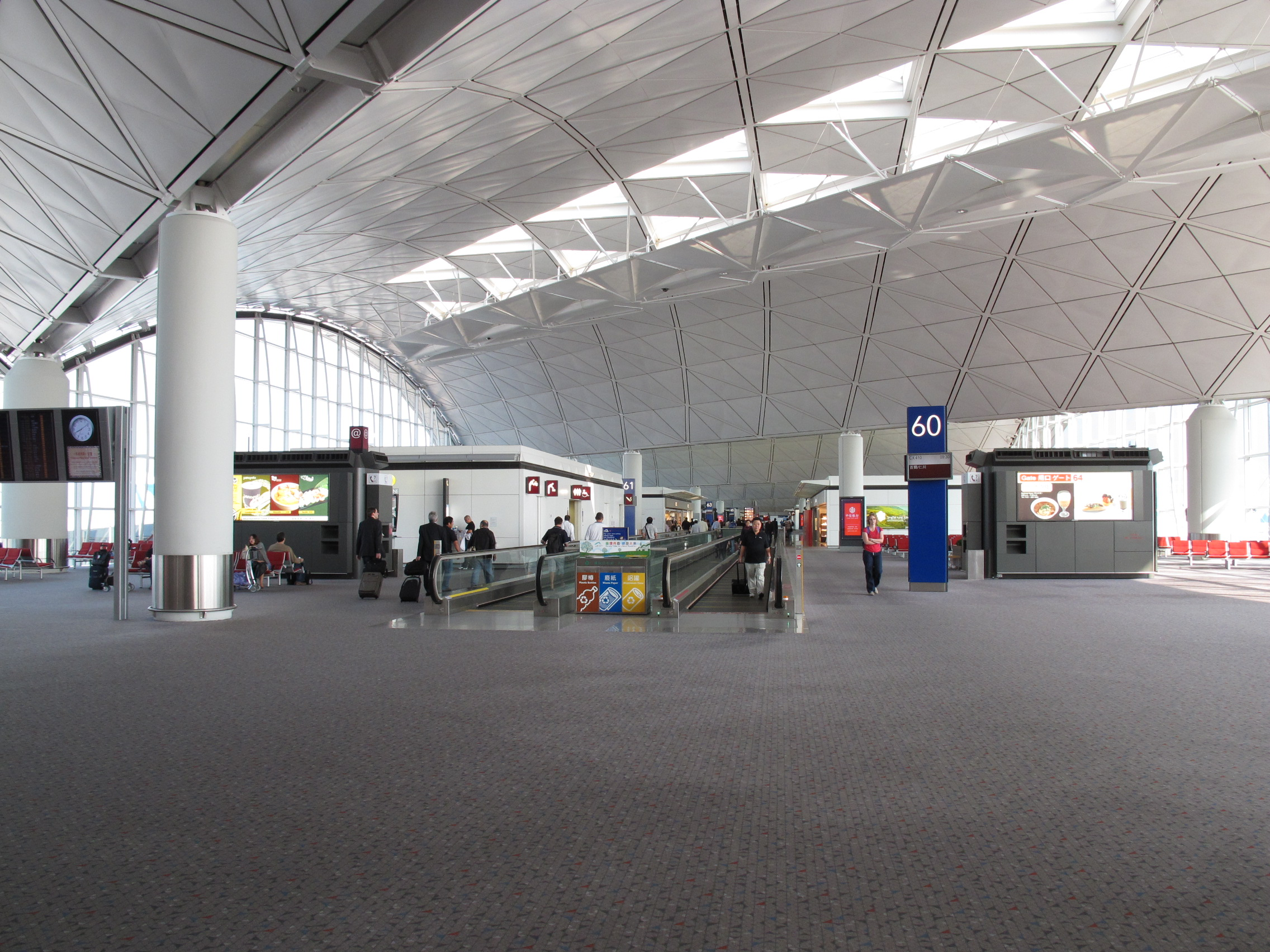 HKIA Terminal 1 Northwest Concourse